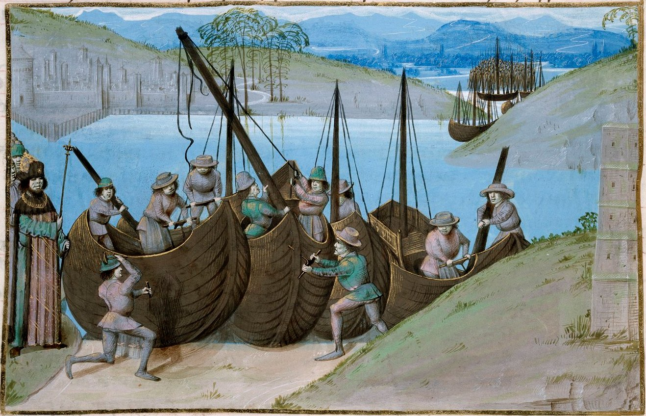 Detail of a miniature of the building of Caesar's fleet of ships. Illustration of the late fifteenth century containing a theme of ancient history (Caesar's expedition in England) but showing medieval ships. Origin: Netherlands, (Bruges)